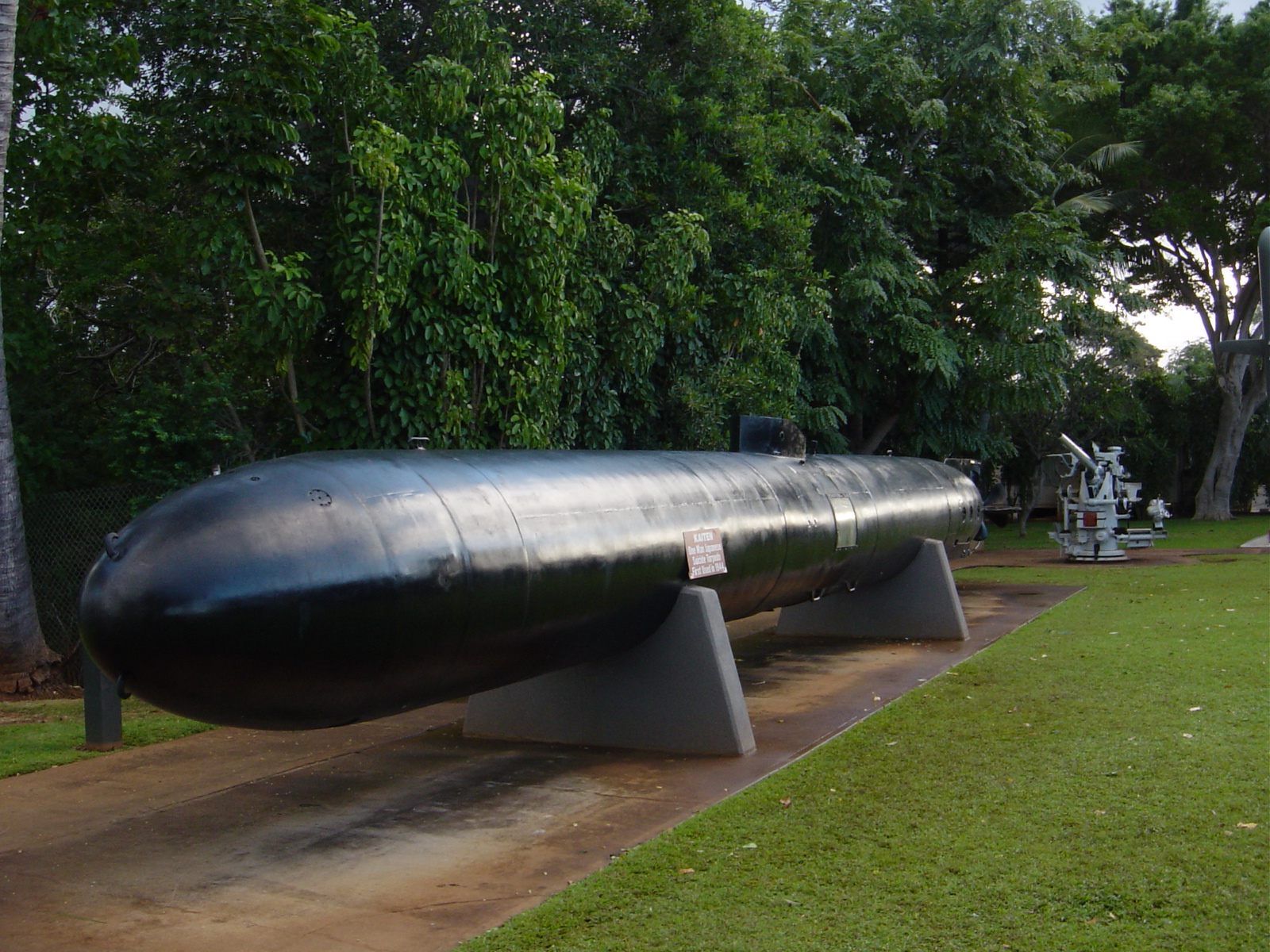 Type 4 Kaiten on display at USS Bowfin submarine museum, Pearl Harbor Hawaii